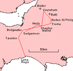 Route taken by the Duke of Monmouth's army, June-July 1685